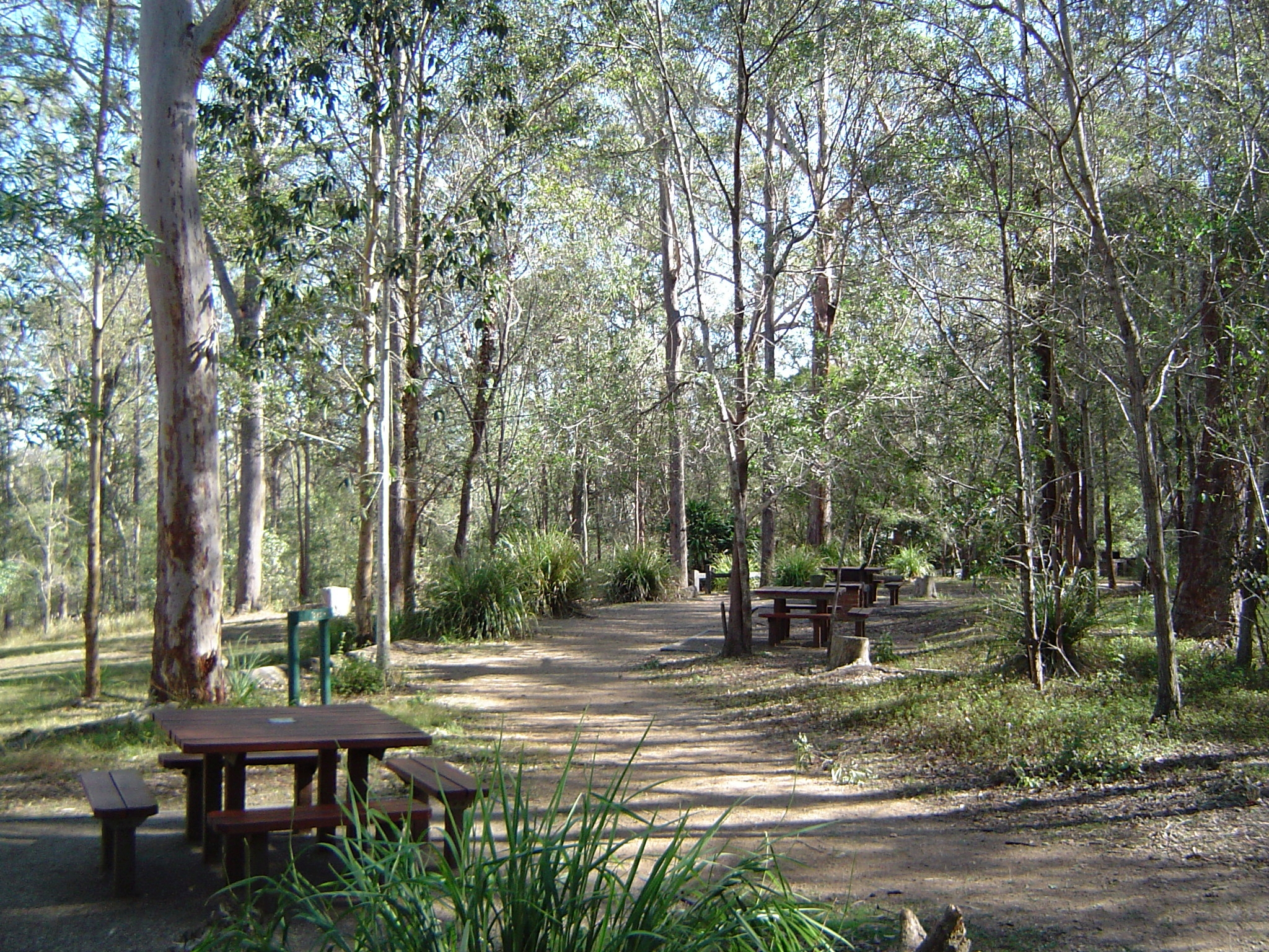 Photo of Venman Bushland National Park picnic area at Mount Cotton, Redland City, Queensland, Australia.